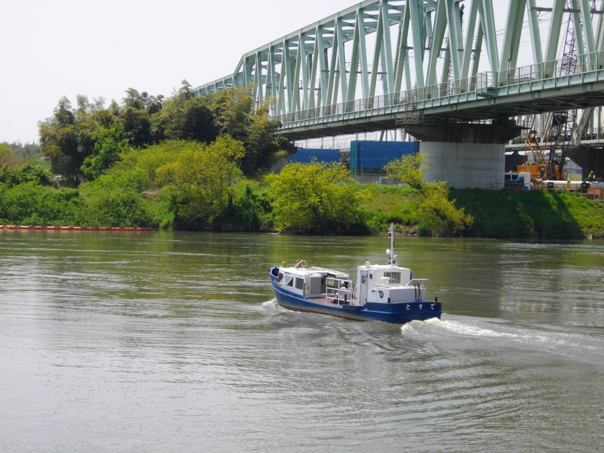 Ohori no Watashi (Ohori Ferry) in Toride City, Ibaraki Prefecture, Japan